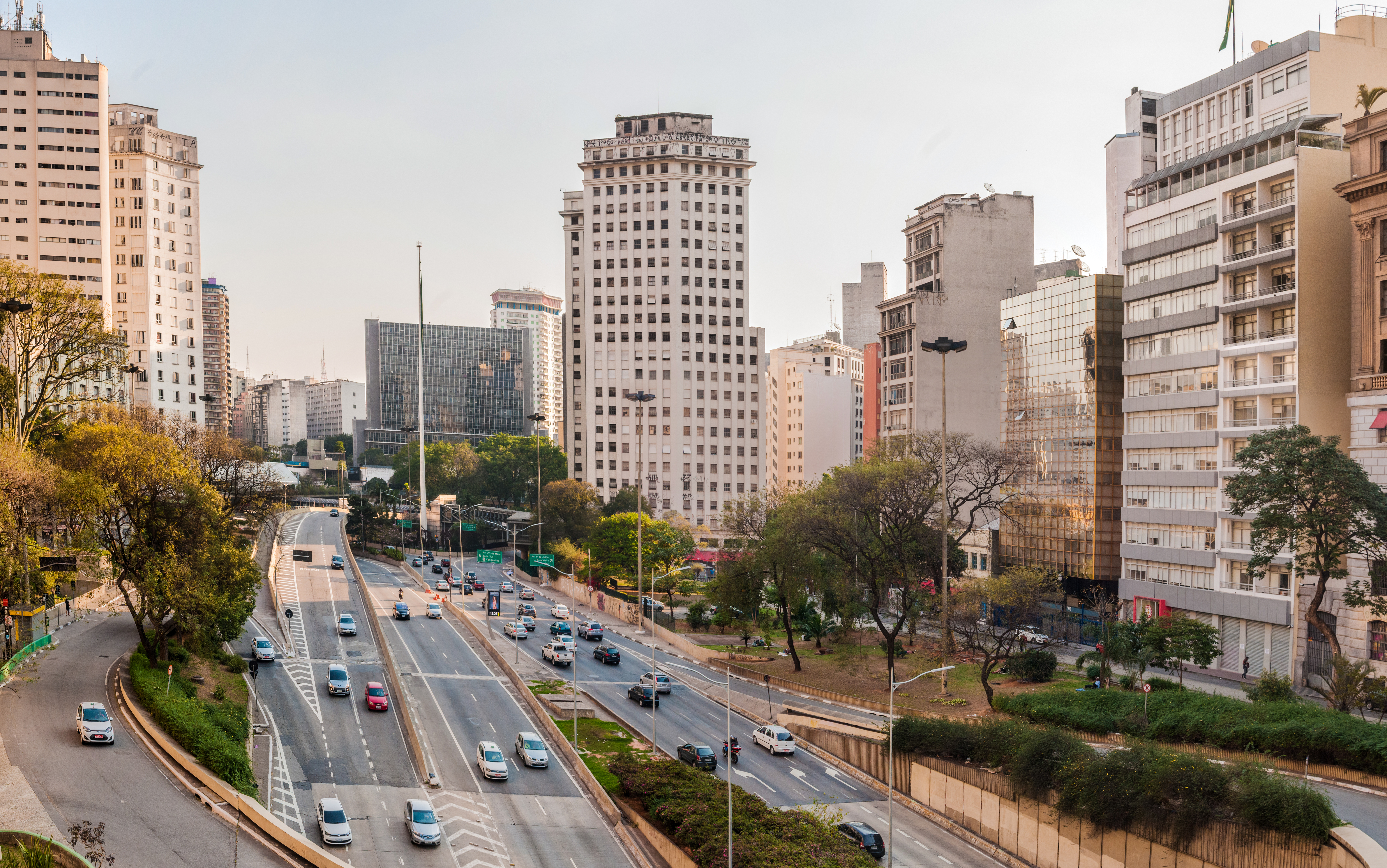 São Paulo City Center